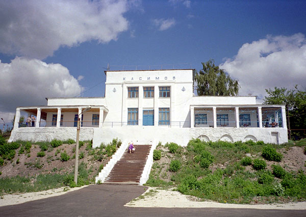 River terminal in Kasimov (2002)